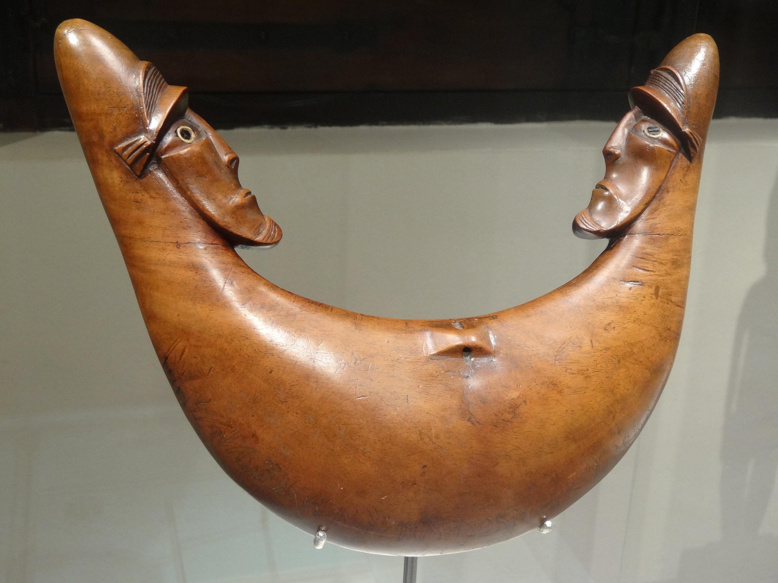 Museu de Cultures del Món, Barcelona.